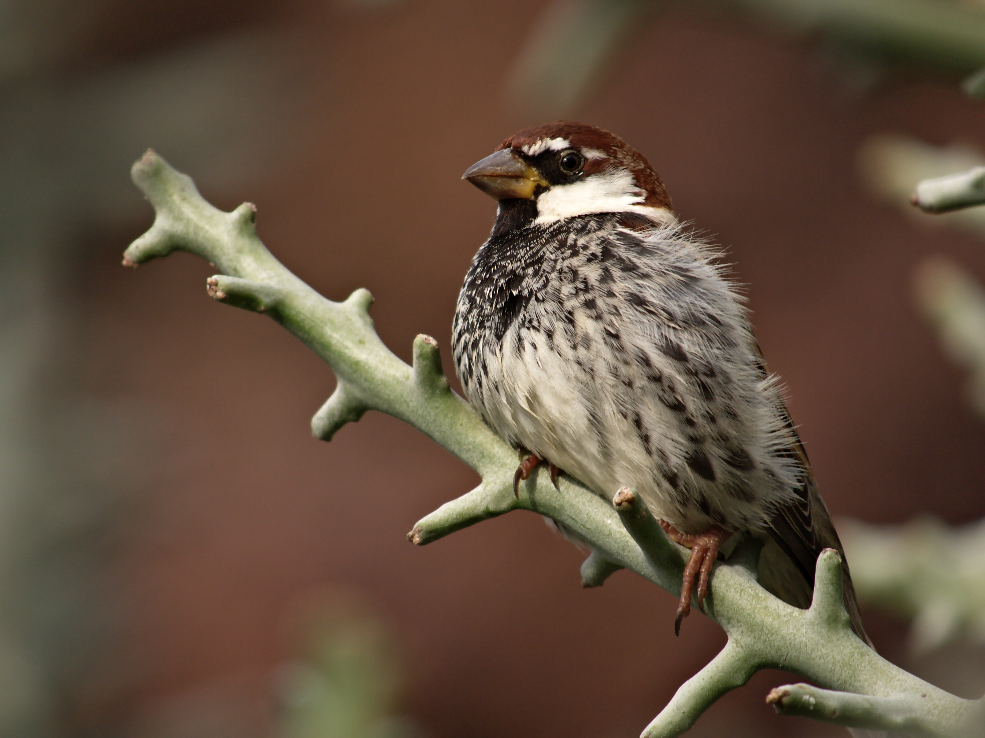 A male Spanish Sparrow at Guatiza, Lanzarote